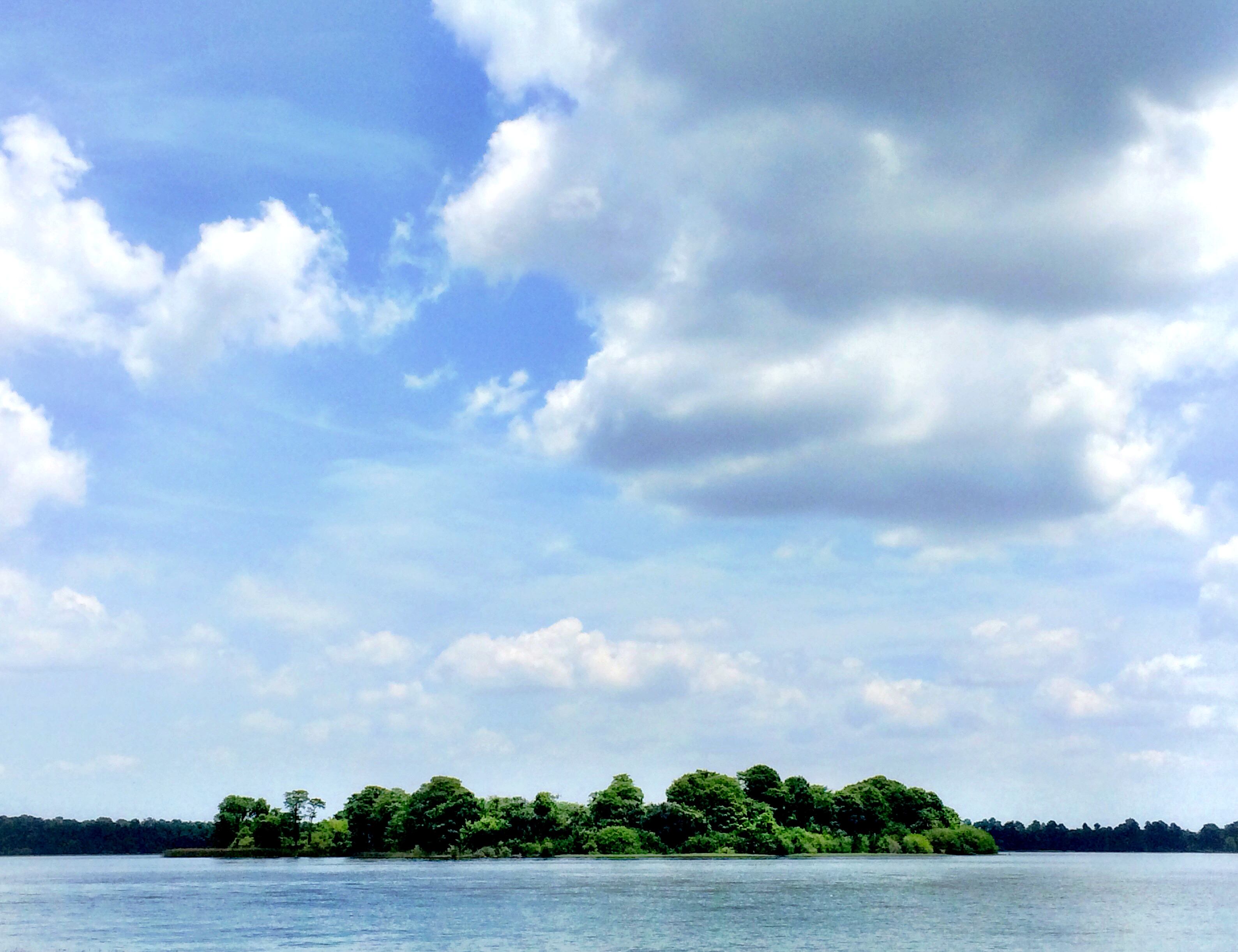 The former Discovery Island in Bay Lake as seen from the beach at Disney's Wilderness Lodge.